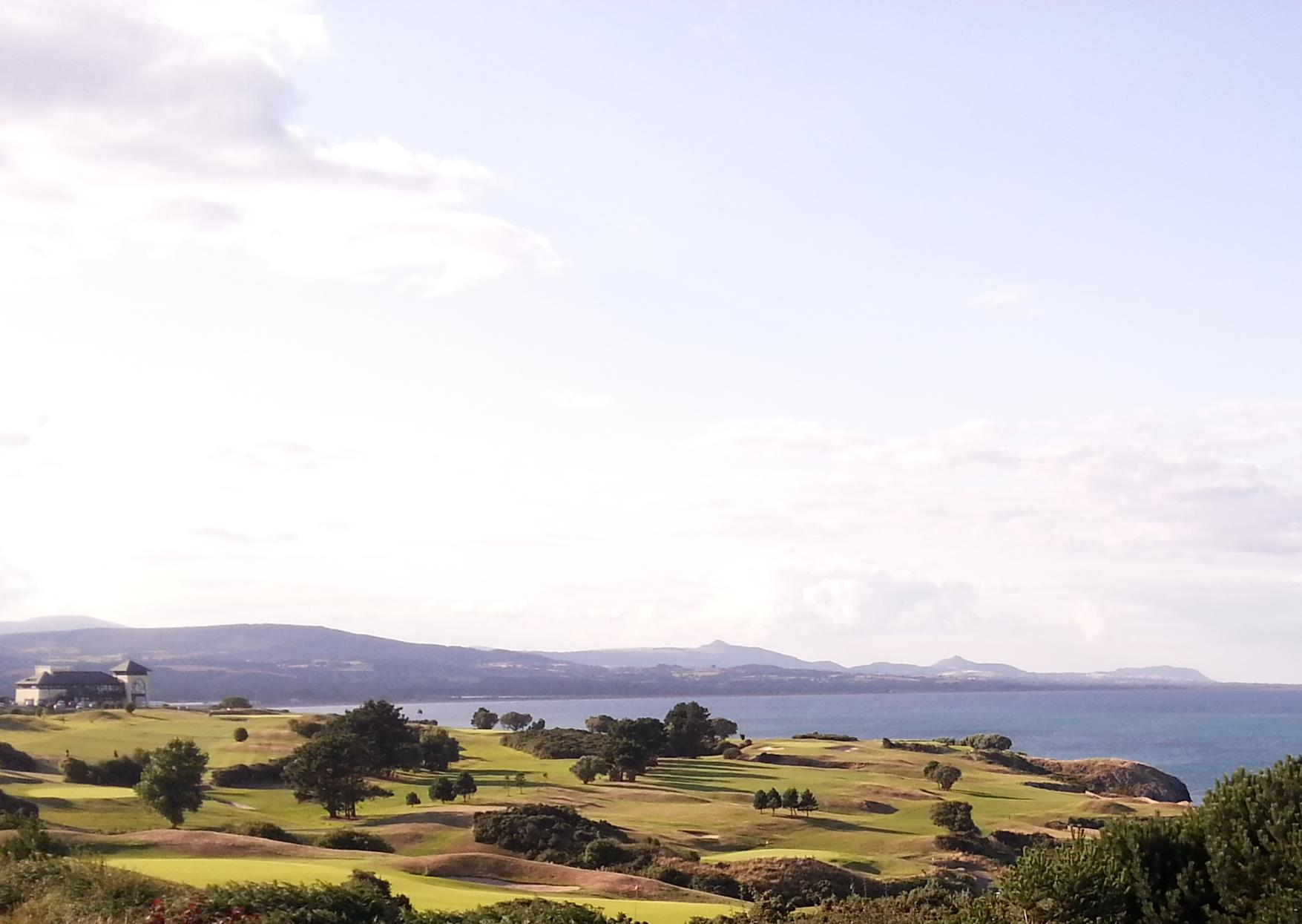 This is a photo showing the geographical context of Wicklow town with its coastline to the south, its bay and the hills and headlands to the north. Wicklow town itself is not in view, hidden below Wicklow golf club house